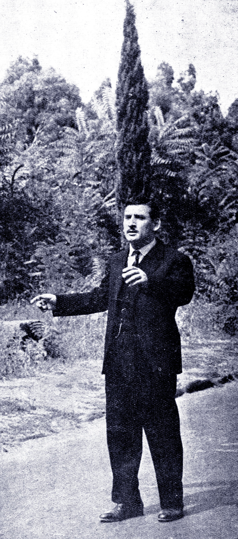 Renato Rascel nel film "la passeggiata" da lui diretto ed interpretato nel 1953